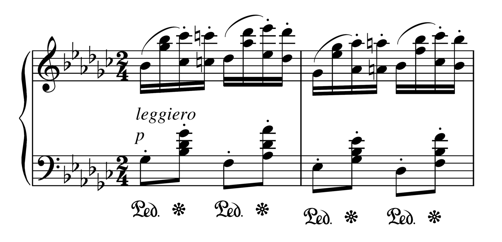 The first few bars of Chopin's Etude Op. 25 No. 9